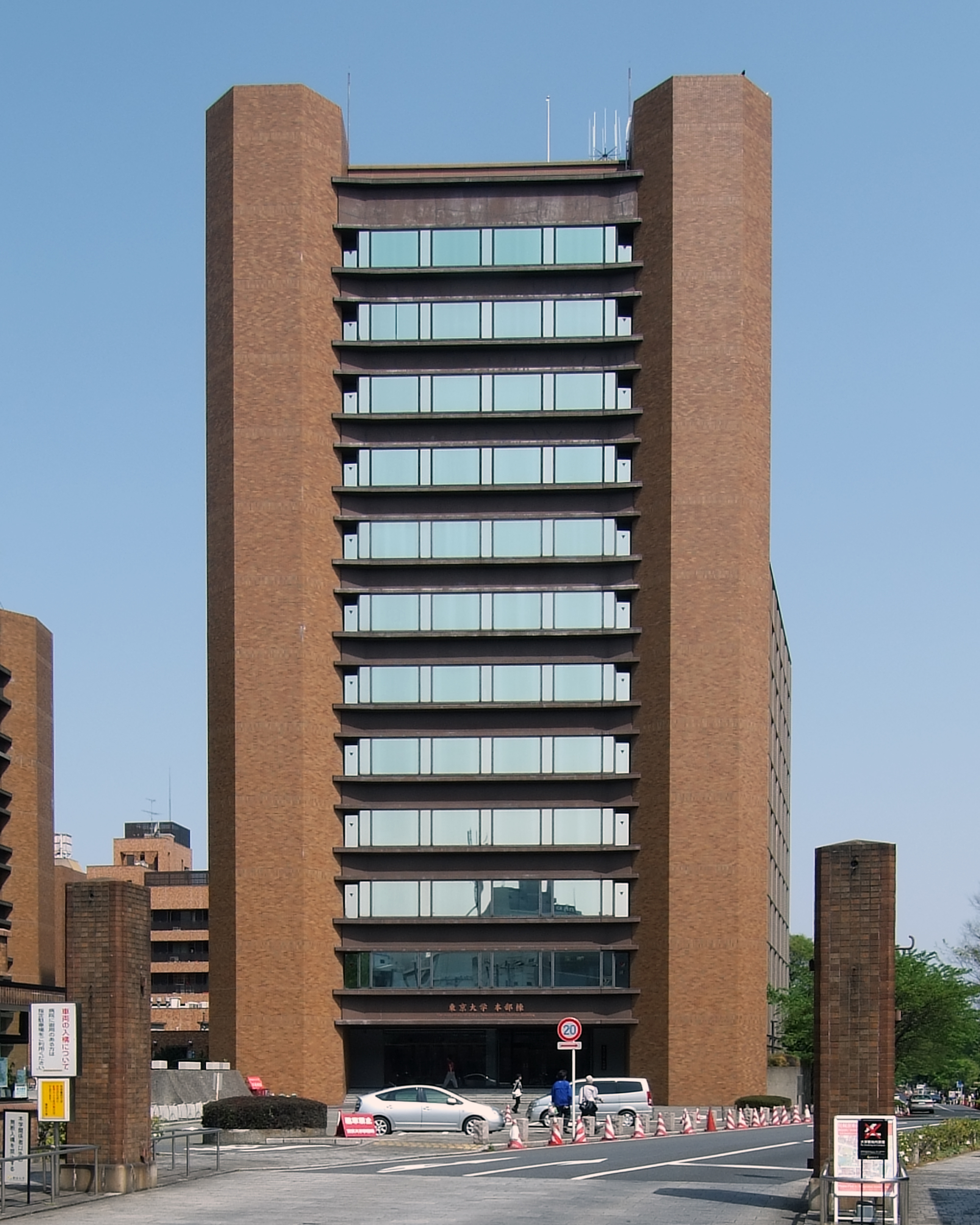 Tatsuoka Gate (Design by Shozo Uchida in 1933) & Administration Bureau Bldg (Design by Kenzo Tange in 1979). of Tokyo University, at Bunkyo-ku Tokyo Japan.